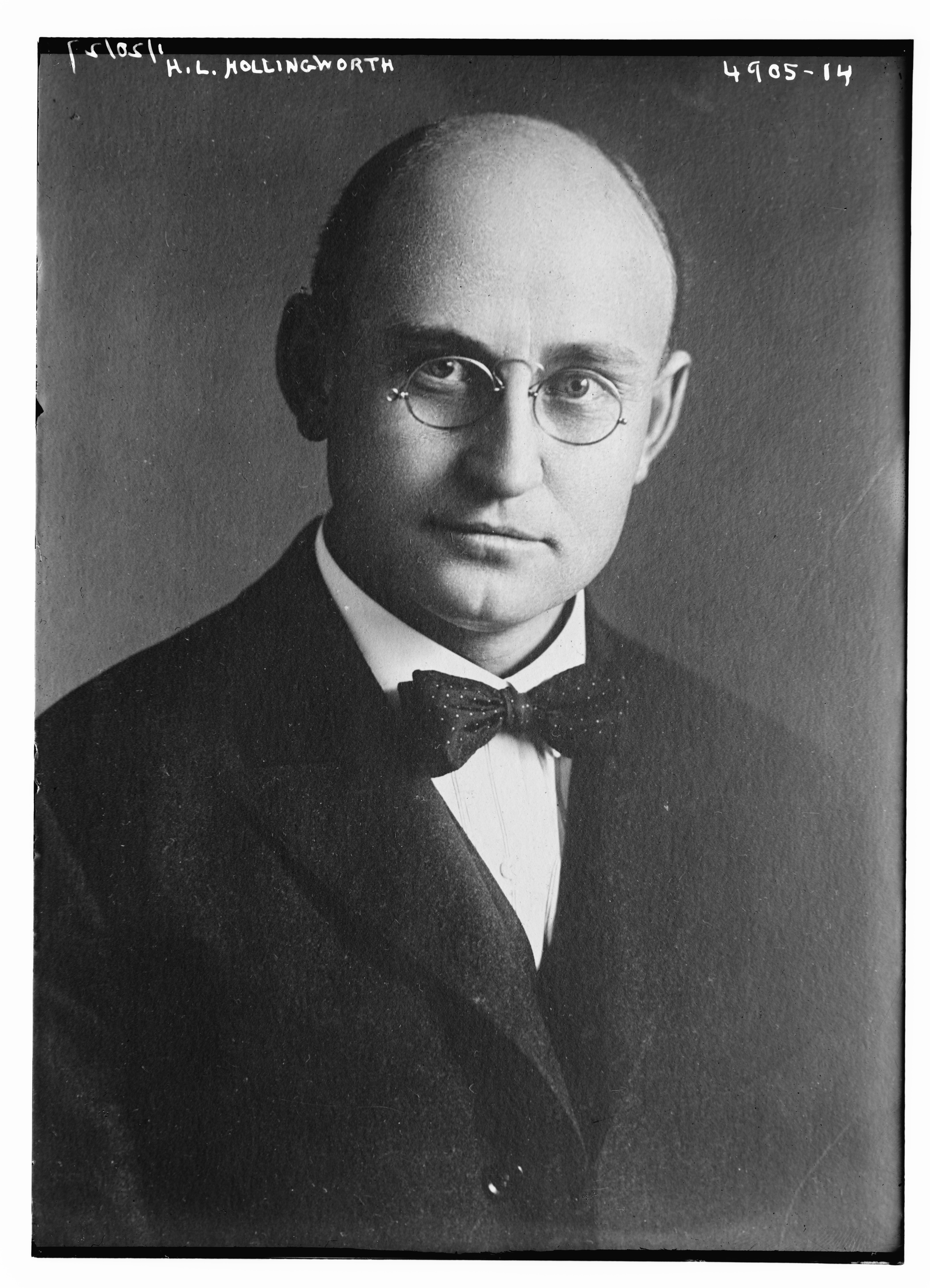 Harry Levi Hollingworth in 1919